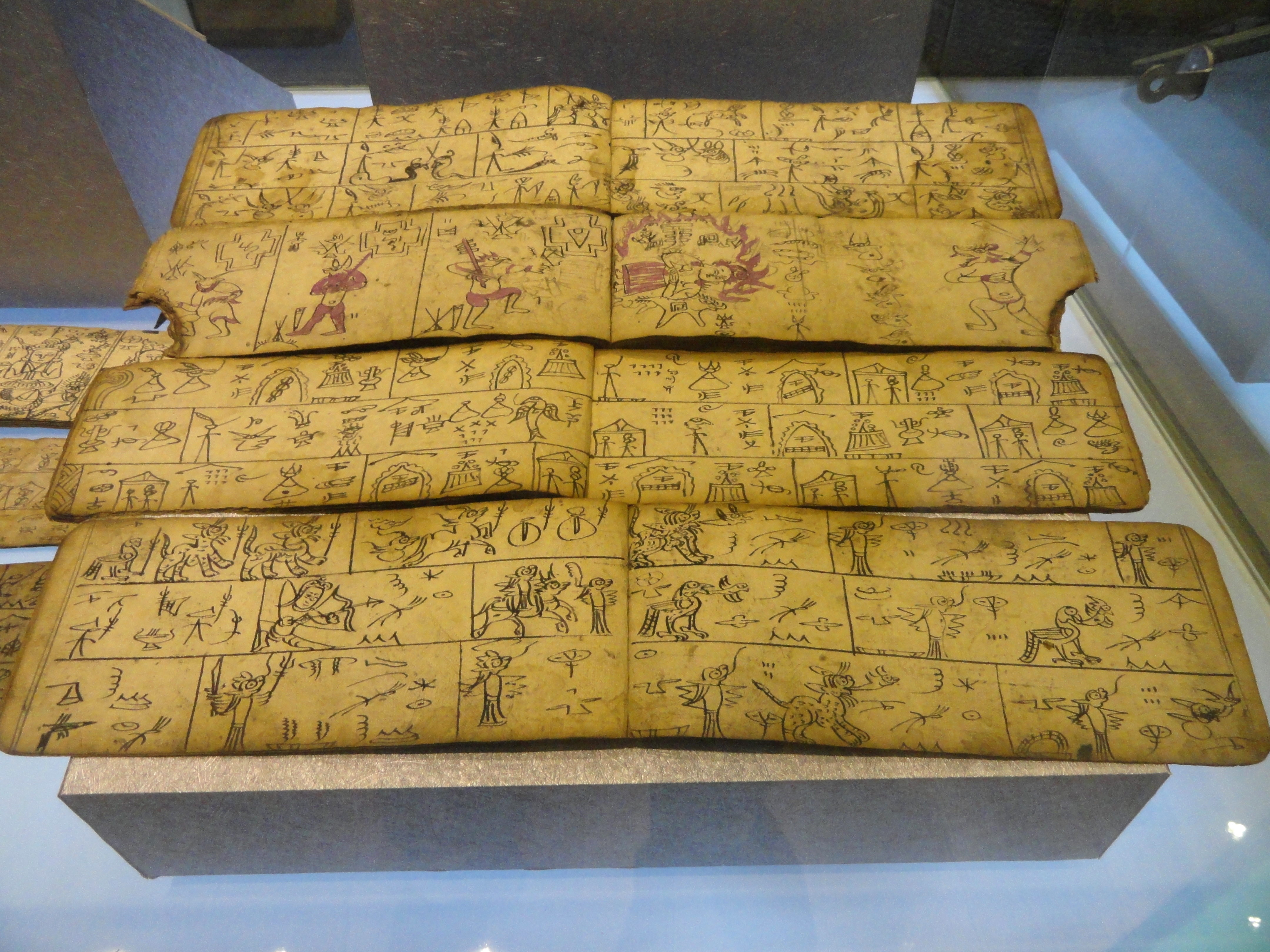 Naxi Dongba scripture. Manuscripts in the Yunnan Provincial Museum, Kunming, Yunnan, China.